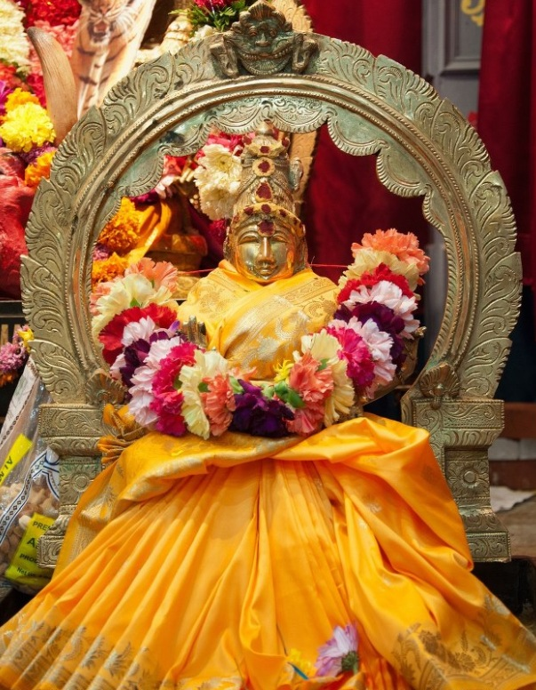 This is the picture of Goddess Bhuvaneswari at Parashakthi Temple in Pontiac Michigan with the picture taken during Navarathri 2012 at the Temple.